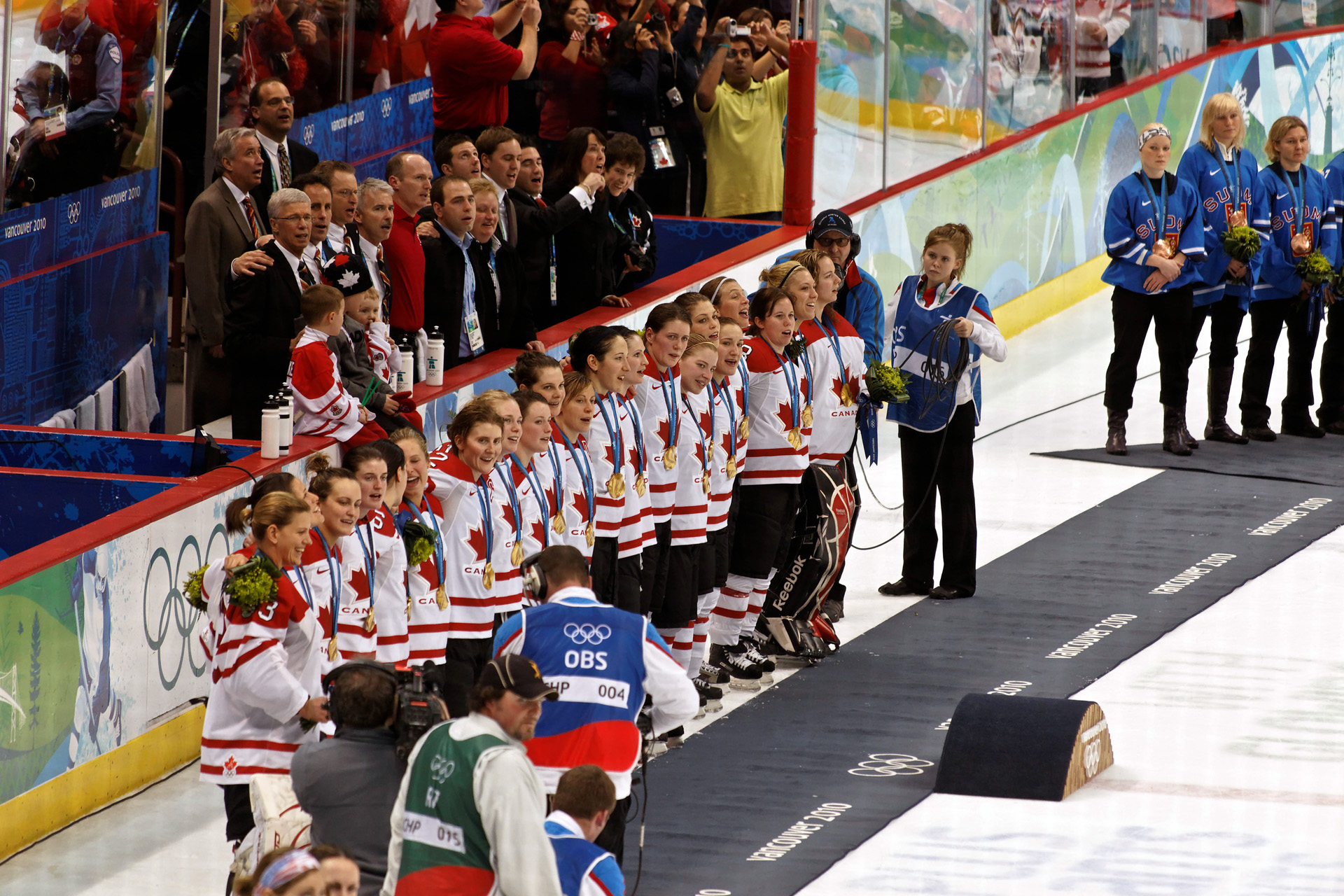 The Canadian women's ice hockey team watch the Canadian flag raised after winning the gold medal against the United States at the 2010 Winter Olympics